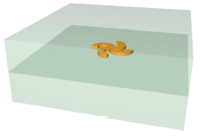 the introduction